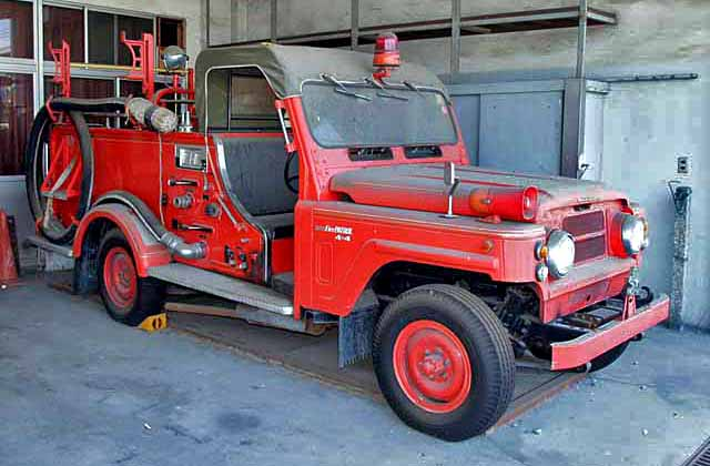 Second generation Nissan Fire Patrol ( FG60 ) in Chūō, Yamanashi